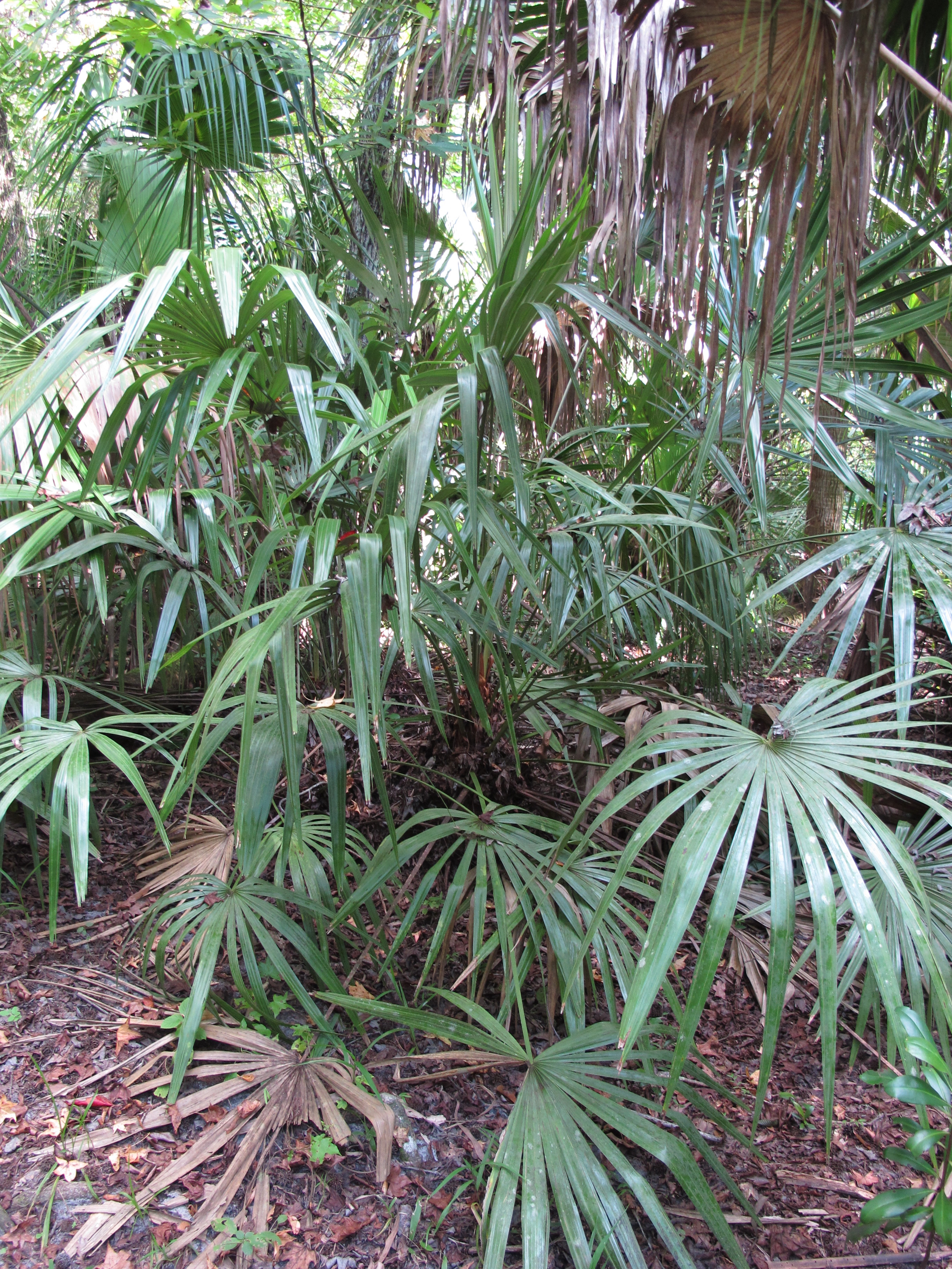 Highlands Hammock State Park, Highlands County, Florida, USA.